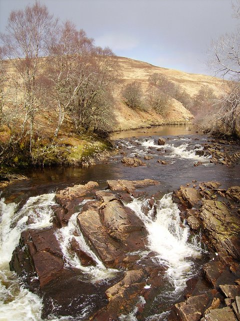 River Cassley. View upstream at a steep section of the river.